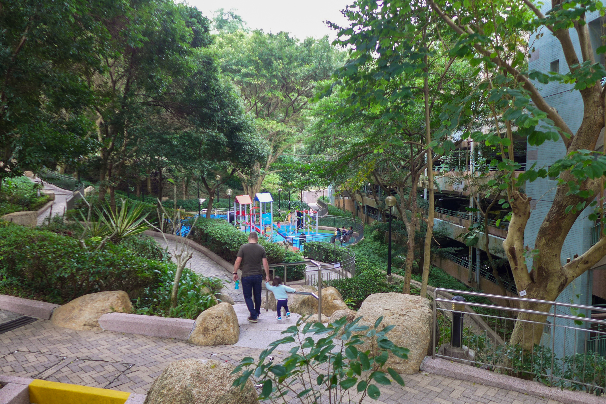 Mei Chung Court Children Play area